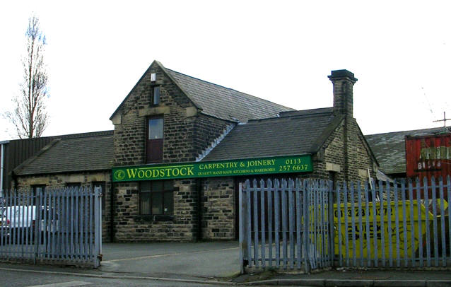 Former Stanningley Railway Station property Now used as business premises